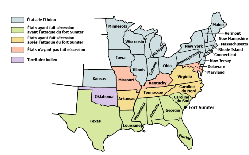 Map of the United States since the Battle of Fort Sumter.